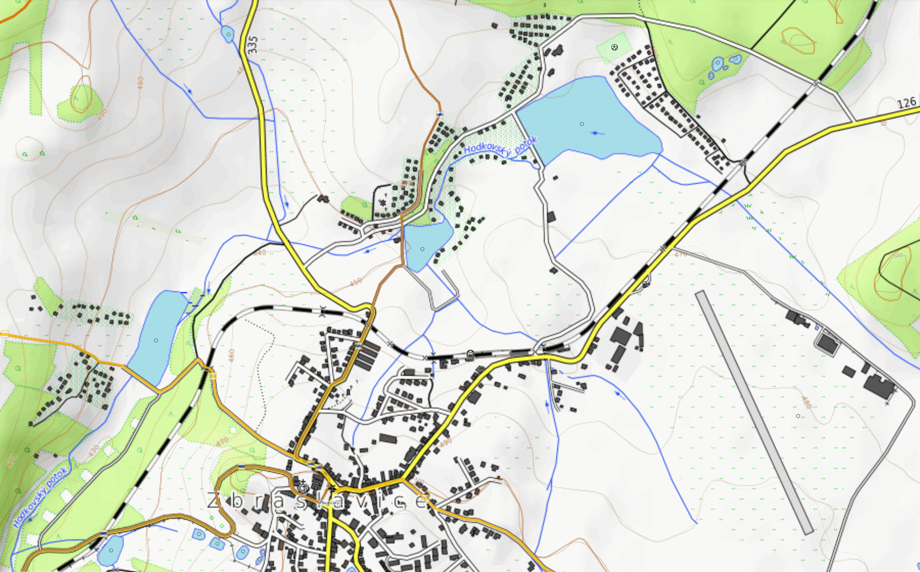 Spalený Pond (Zbraslavice) 2. Schema of Surroundings. Kutná Hora District, the Czech Republic.